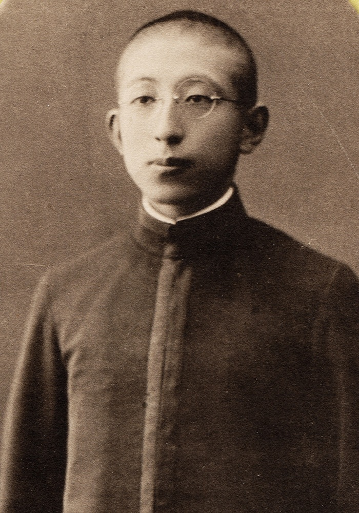 Marquis Kacho Hironobu,a naval cadet